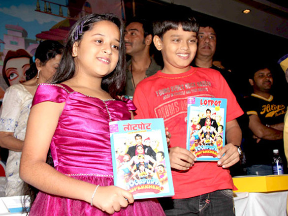 Hindi film child actors Chinky Jaiswal and Amey Pandya at promotions of their film Toonpur Ka Super Hero (2010).